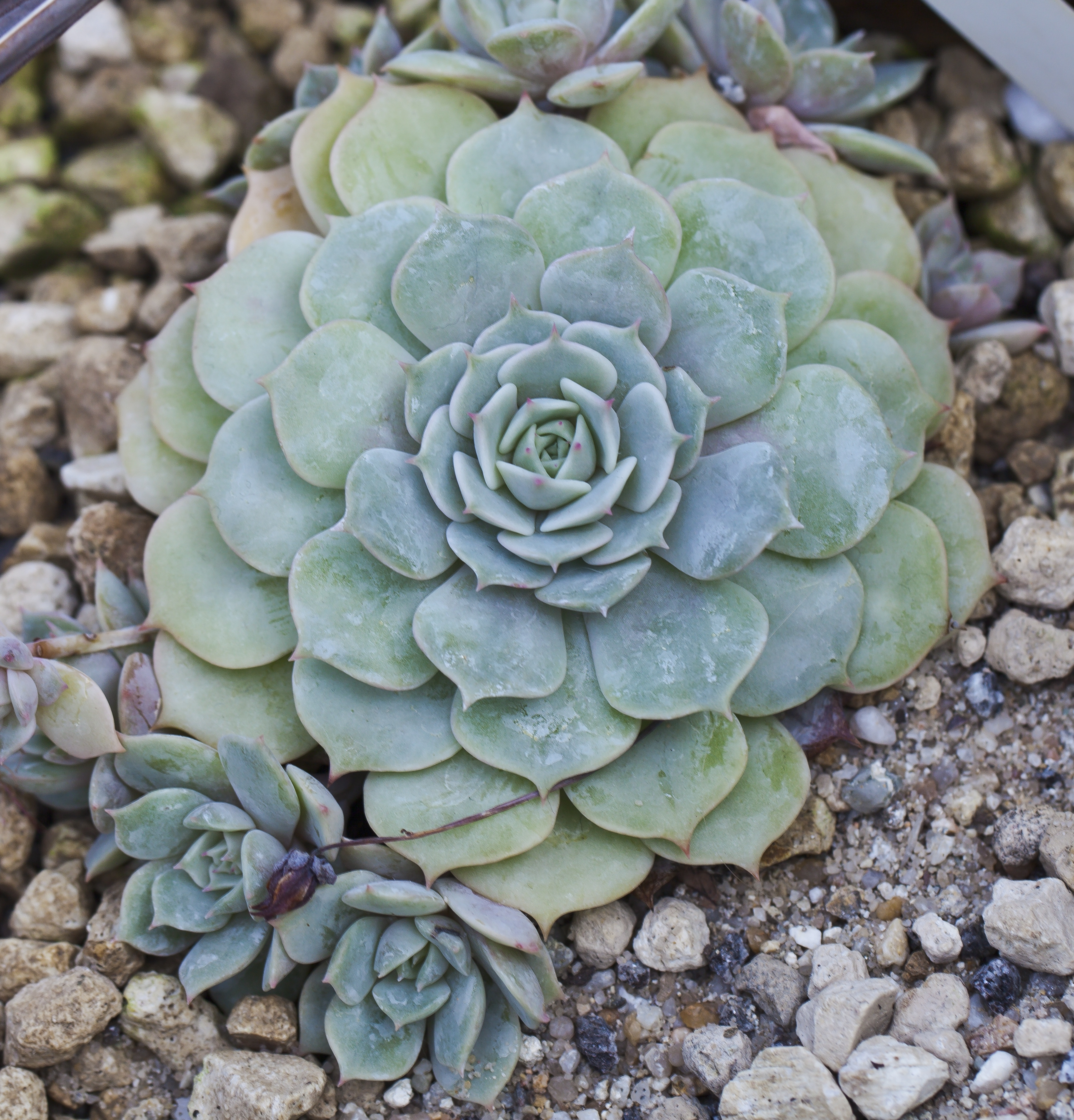 Echeveria elegans, Jardín Botánico de Múnich, Alemania